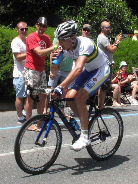 The crowds in Stirling cheered home William Clarke who won Stage 2 of the 2012 Tour Down Under by more than one minute. Clarke was in a two man breakaway from the start and rode solo for the last 90km.